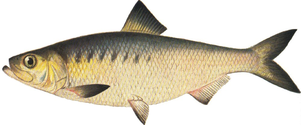 Hickory Shad (Alosa mediocris)